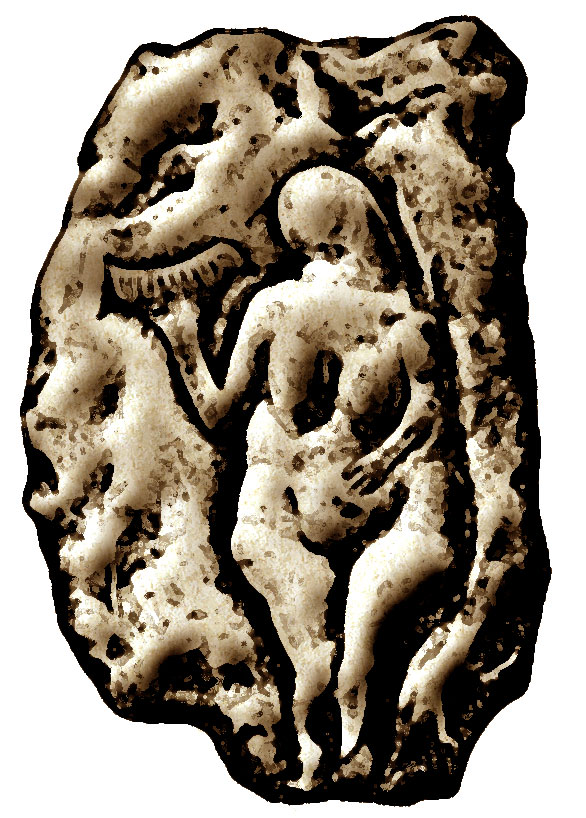 Venus of Laussel (Bordeaux, France)